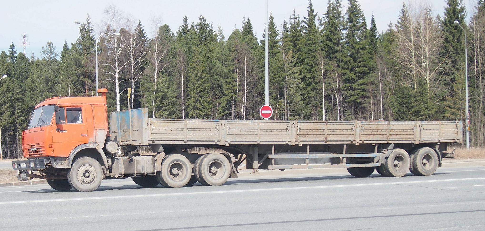 KAMAZ-54115? Khanty-Mansiysk